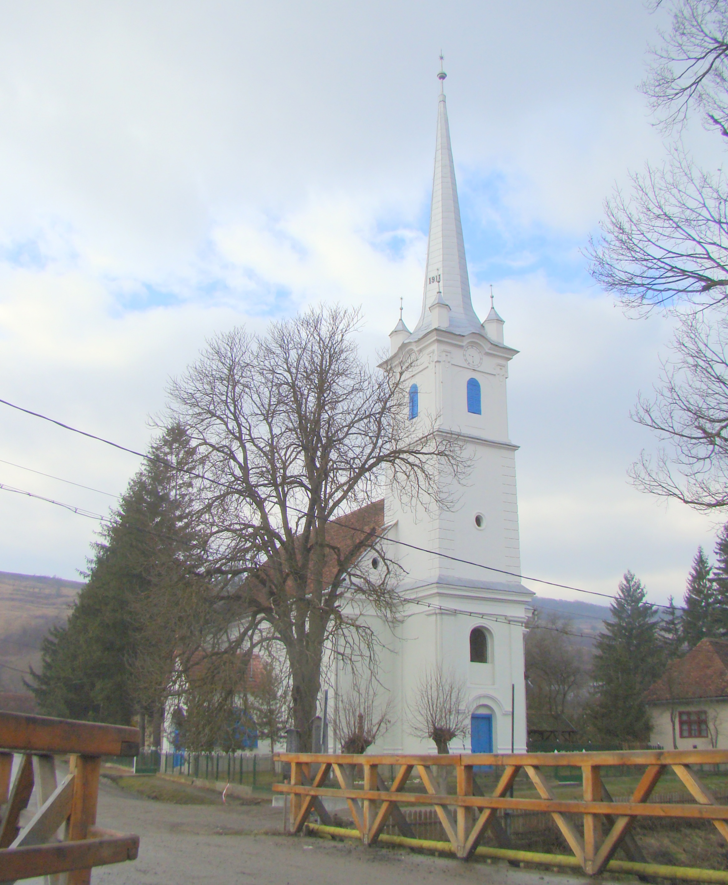 Reformed church in Ghinești, Mureș County, Romania